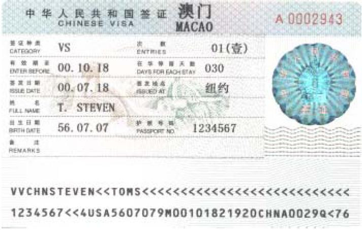 A visa for entry into Macau issued by the Chinese consulate in New York